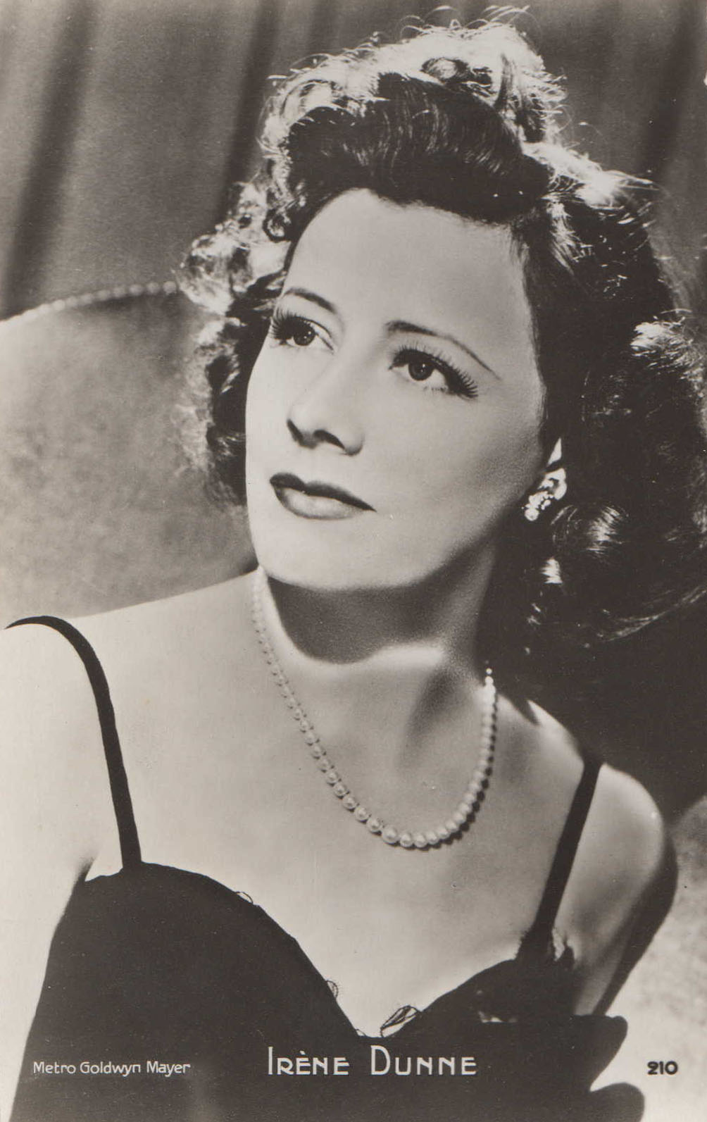 Irene DUNNE (1898-1990), actress